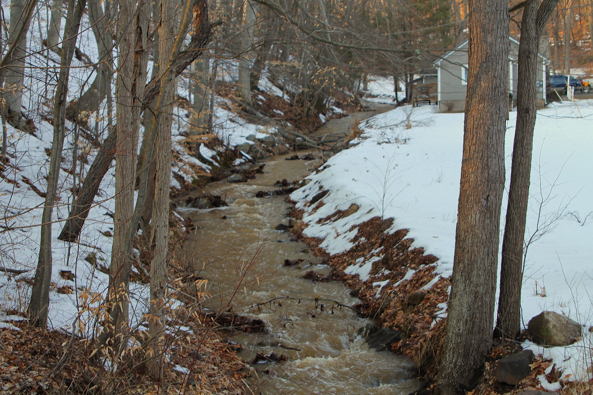 Kinney Run looking upstream near its headwaters in Spring 2015. The high flow conditions are due to snowmelt.